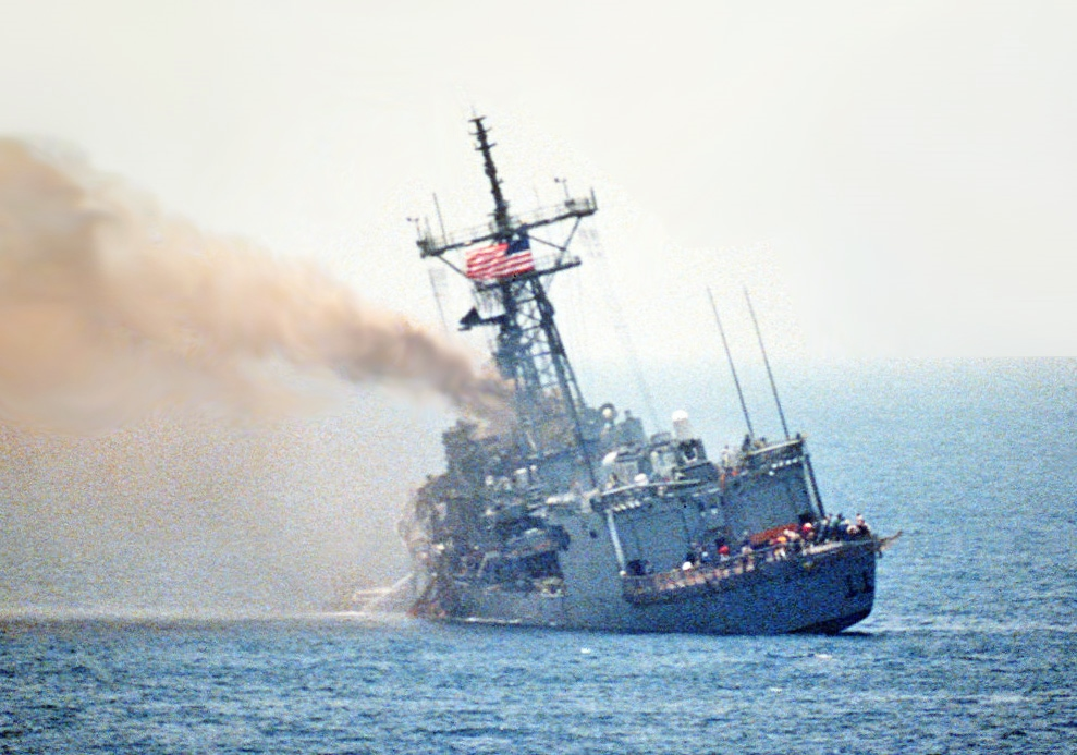 A port quarter view of the guided missile frigate USS STARK (FFG-31) listing to port after being struck by an Iraqi-launched Exocet missile.